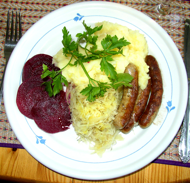 From top right clockwise, rödbetor (pickled beets), mashed potato, korvar (sausage), surkål (saurkraut) are placed on the plate.